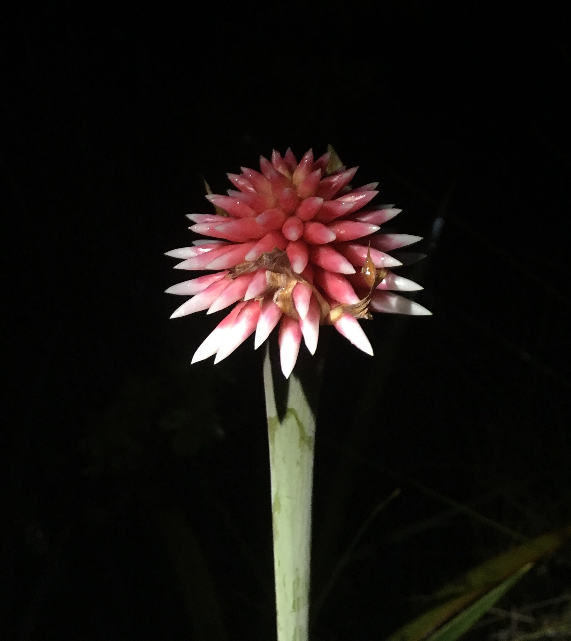 Guacamaya superba. Species of plant.